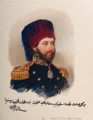 Mehmed Sadik Rifat Pasha by Moritz Michael Daffinge, 19th century painting.